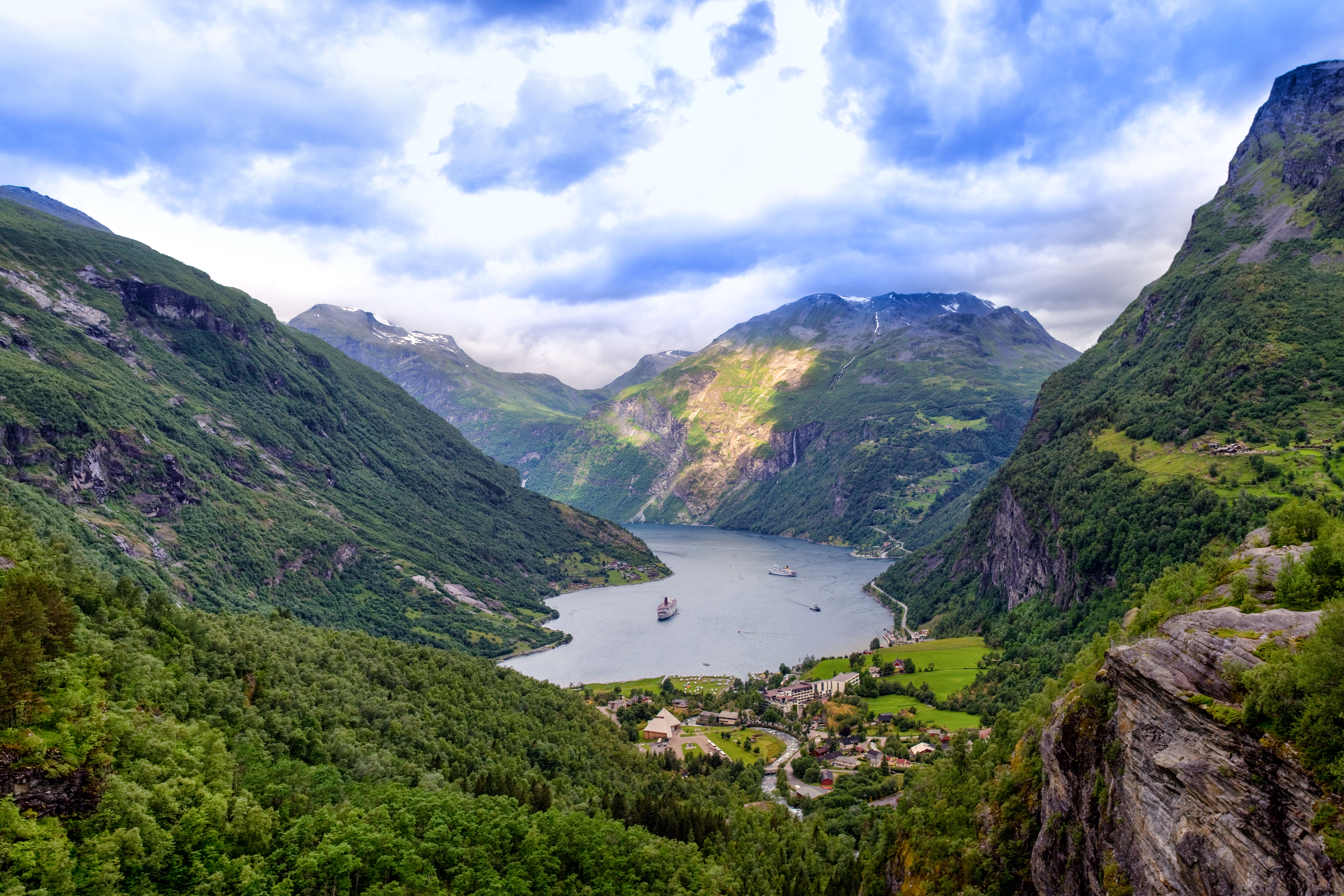 Geirangerfjord